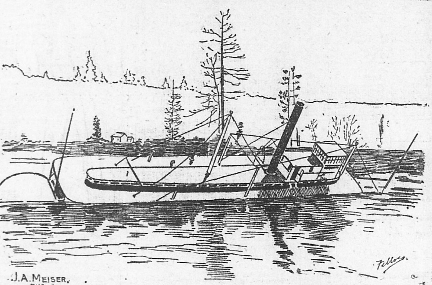 Drawing of the steamer Mascot, after being sunk on the Lewis River, in January 1900.